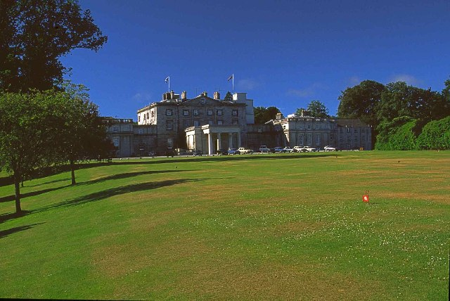 Cally Palace Hotel, Gatehouse of Fleet. The Cally Palace Hotel at Gatehouse of Fleet is in both gridsquare NX6054 and NX5954. This image is taken from gridsquare NX5954 with the boundary with square NX6054 being just past the central part of the building with the right hand wing being in that gridsquare.